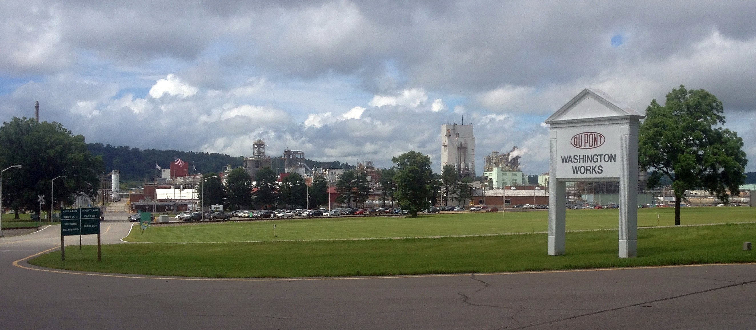 Entrance to DuPont's Washington Works in Washington, WV. [note that Washington Works is now owned by Chemours]